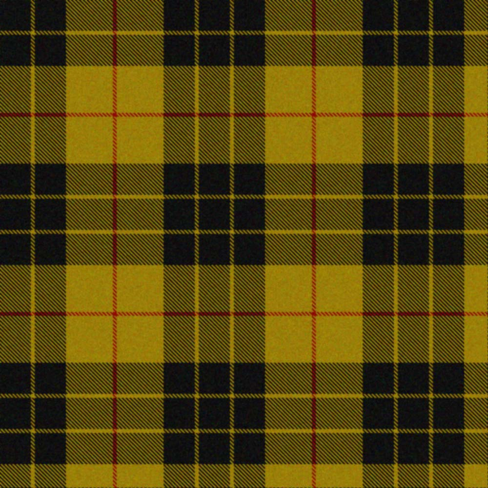 MacLeod tartan, as published in the Vestiarium Scoticum. Modern thread count: Bk16 Y2 Bk16 Y24 R2 (source: Scotland's Forged Tartans, An analytical study of the Vestiarium Scoticum. ISBN 0-904505-67-7). "Clann-Lewid hath thre blak styppis vpvn ane zellow fylde, ane yn ye myddest of ye zallo sett ane stryp of twal threiddis scarlatt." —Vestiarium Scoticum page 80, plate 12